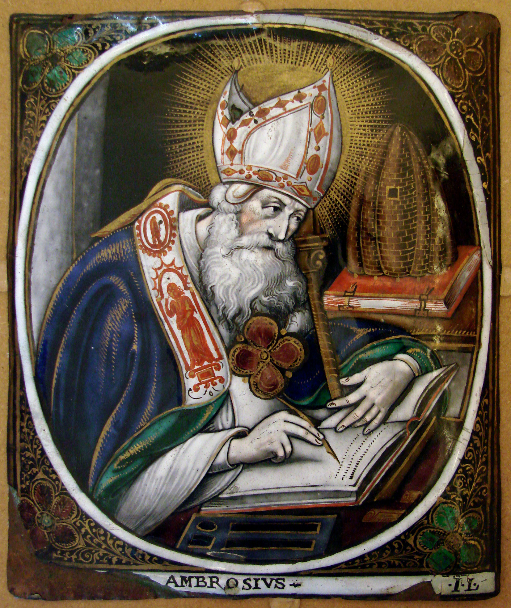 Enamel on copper by Jacques I Laudin (1627-1695),Limoges: Saint Ambrose.Musée de Châlons en Champagne, Reims, France.